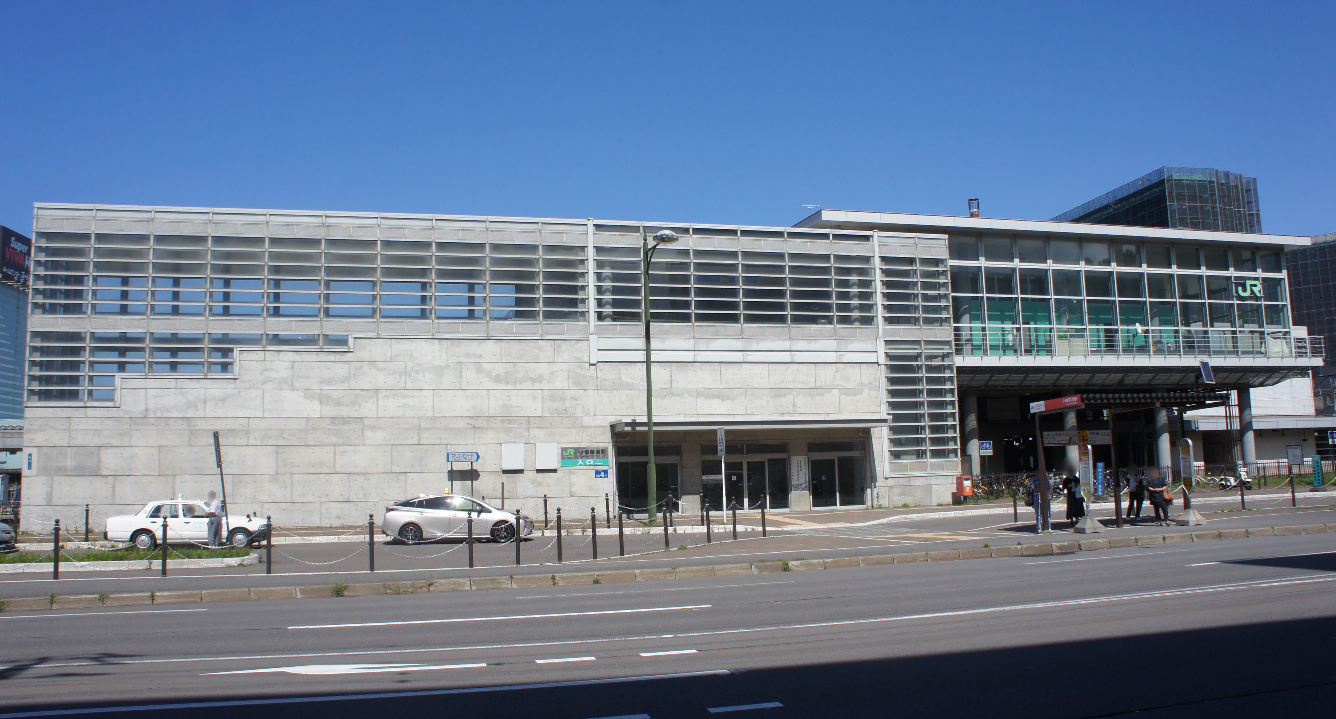 South Exit of JR Hakodate-Main-Line Otaruchikko Station